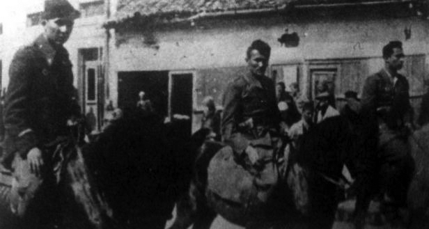 Yugoslav Partisans enter Novi Pazar in 1940s